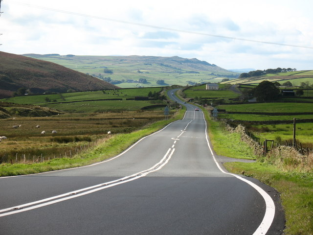 Looking west along A59 From this point near its junction with Kex Gill Road, the A59 drops down a long hill to Bolton Bridge. Until the 1970's this was a tortuous stretch of road with numerous bends and narrow sections, but since improvement [much of it two lanes up and one down] it has become a fast road where North Yorkshire traffic police like to lurk and catch those who speed by at 80mph.